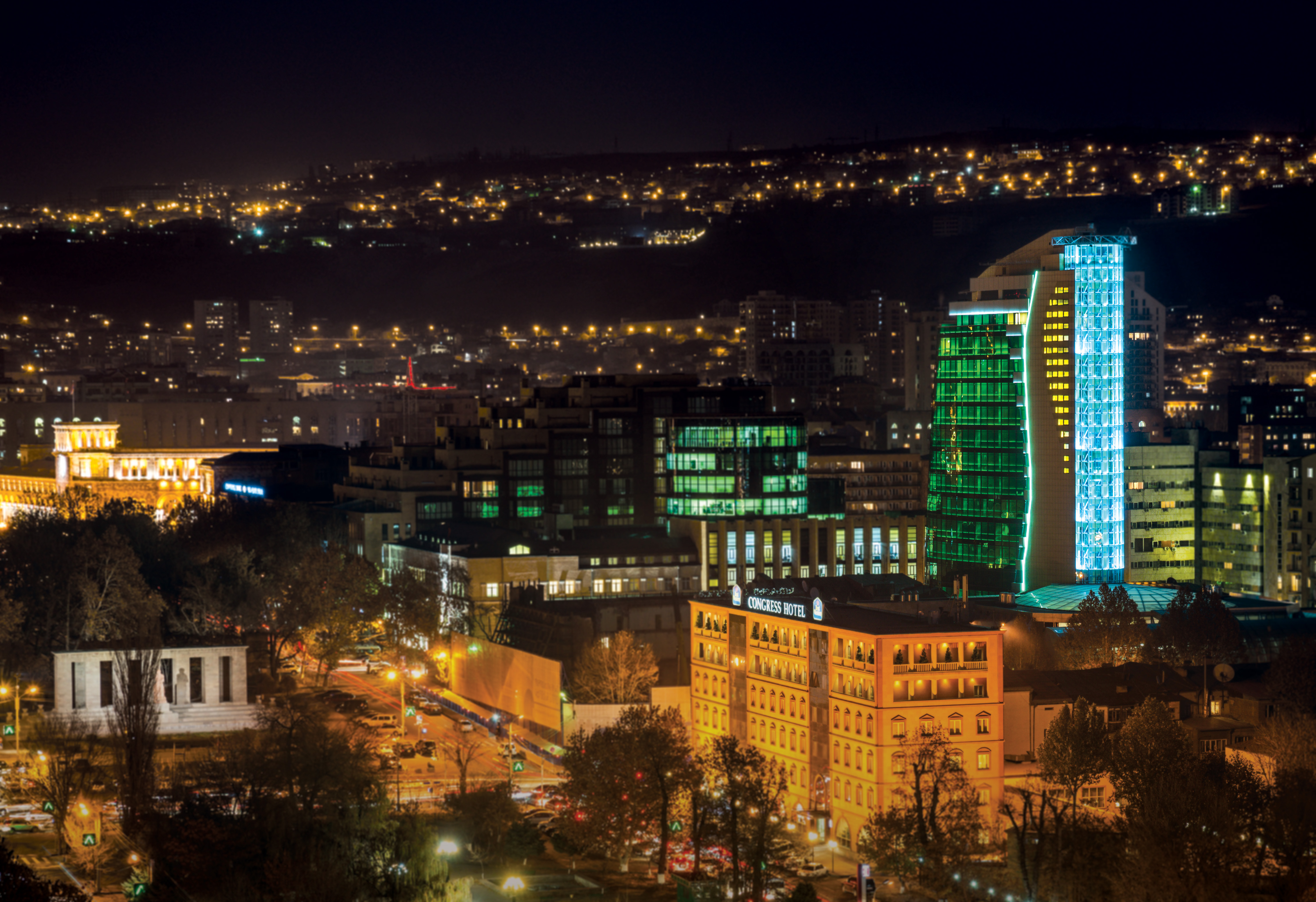 This is a photo from the top of the Yerevan City Hall, at night.